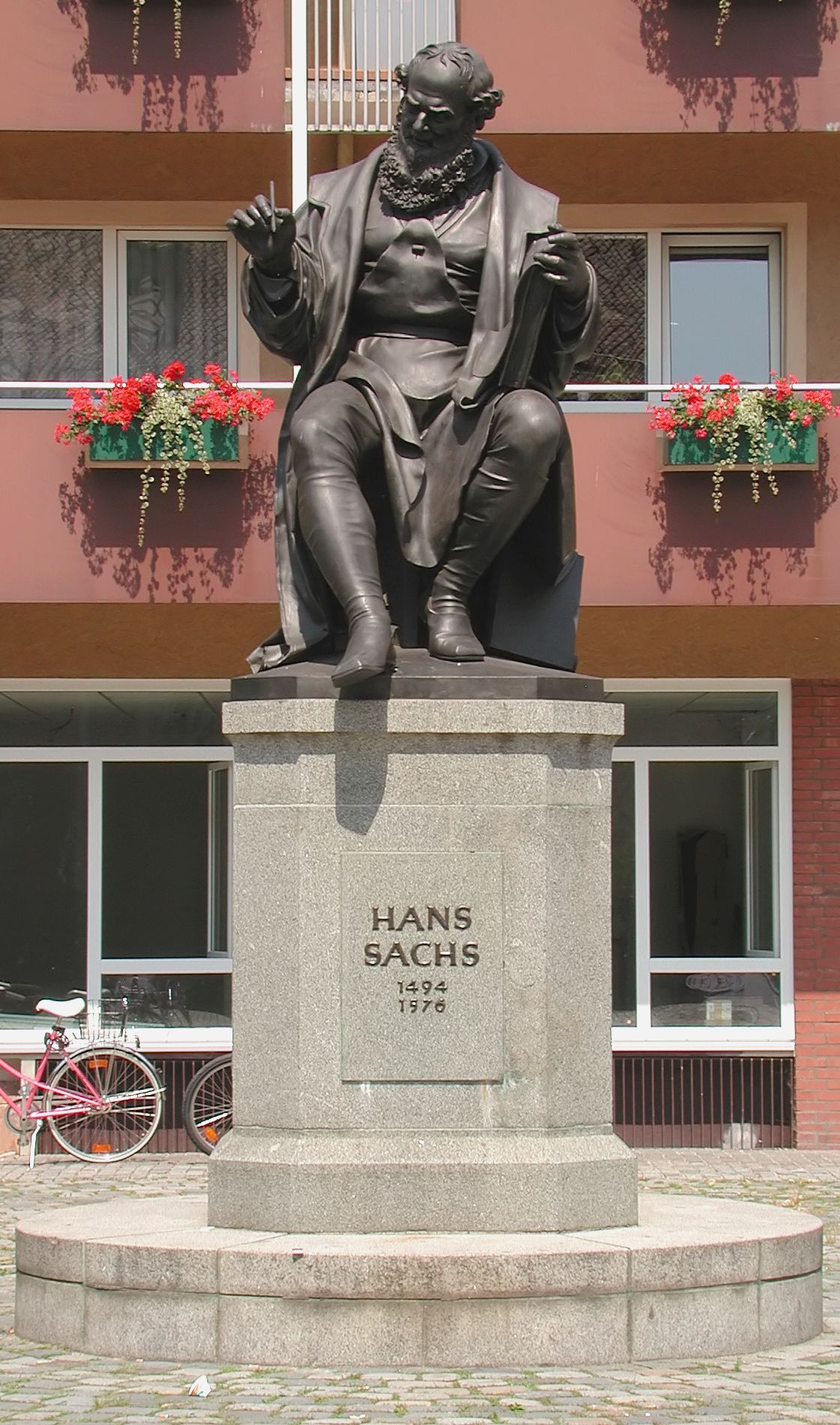 Picture of the Hans Sachs memorial Nuremberg. Sculptor: Johann Konrad Krausser